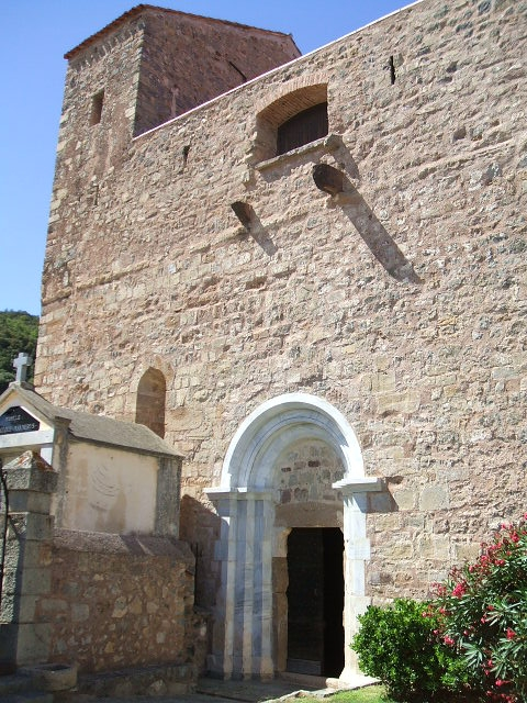 Montbolo : Saint-André church (XIIth century), southern wall and portal, with the eastern belltower.